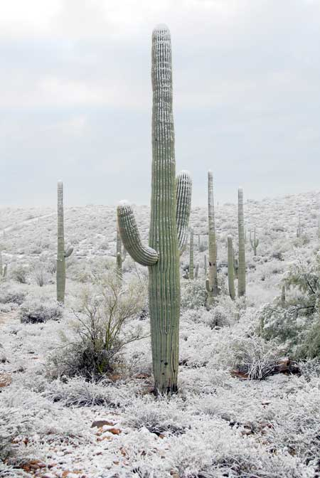 Photo © by Jeff Dean